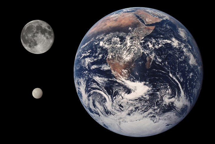 Diameter comparison of the Saturnian moon Tethys, Moon, and Earth. Scale: Approximately 28.9 km per pixel.